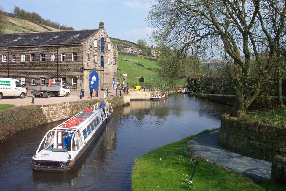 The Standedge Visitors Centre at Tunnel End, Marsden, West Yorkshire. For more information see the Wikipedia article Standedge Tunnels.